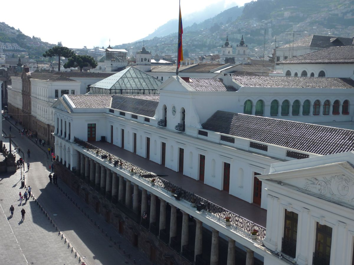 Carondelet Palace from above